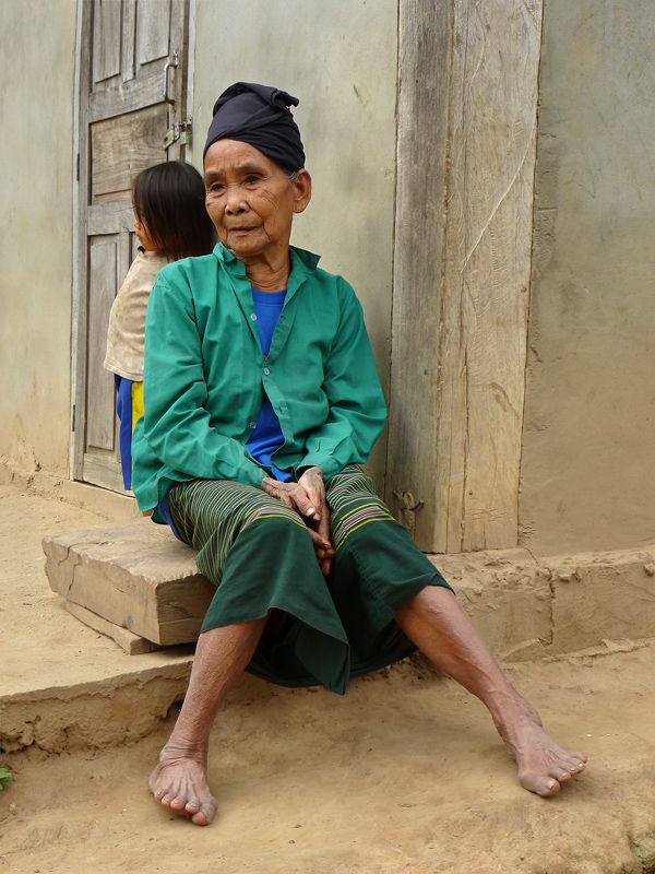 Ban Huay Hao, a Khmu village, Bokeo Province, Laos.